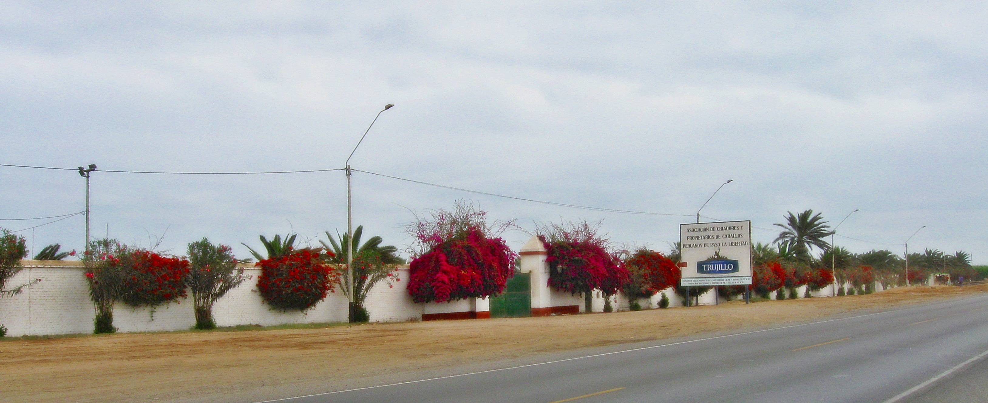 Asociacion Criadores de Caballos de Paso de La Libertad